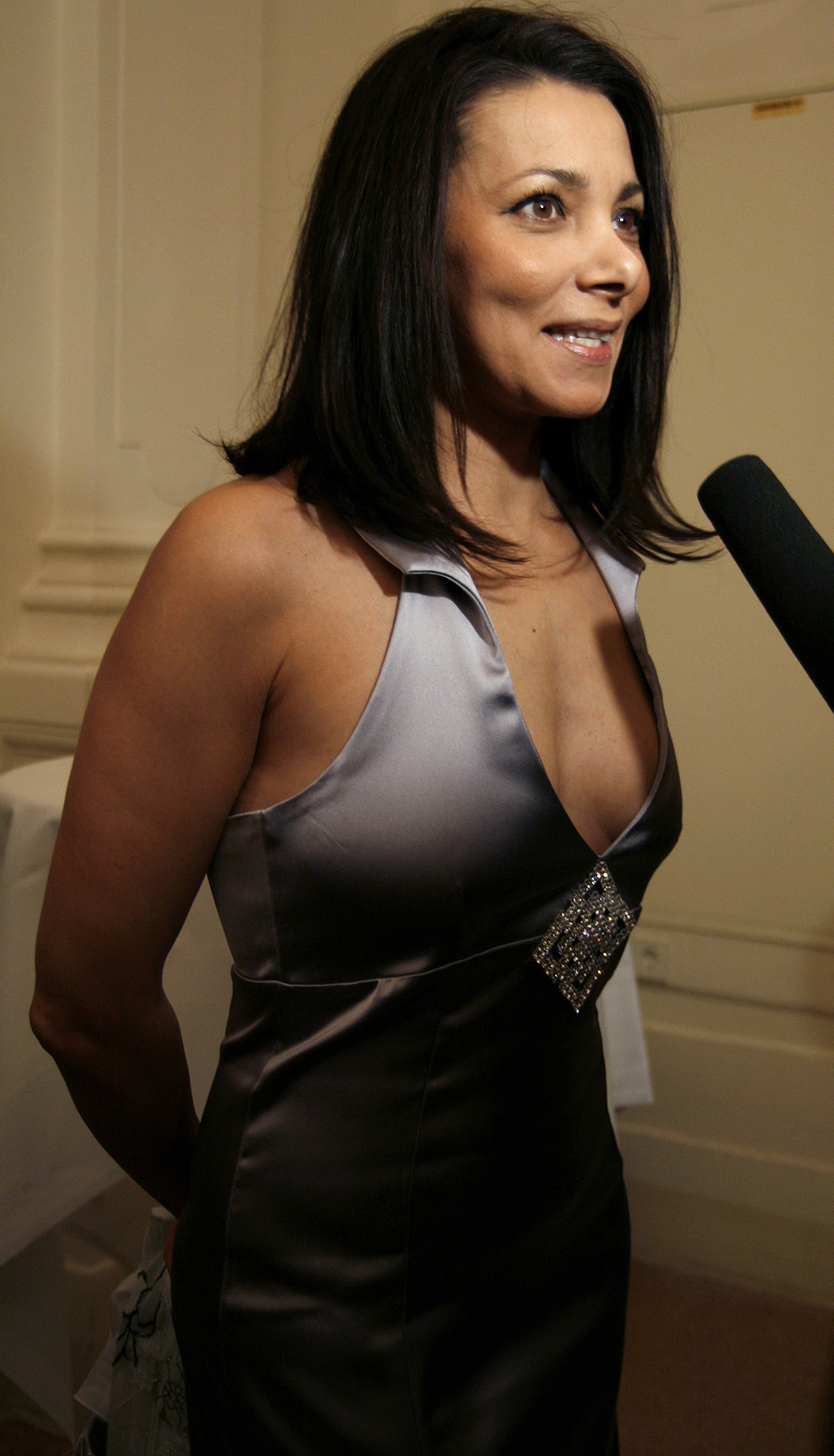 Actress Sandra Cervik at the Nestroy-Theaterpreis (Etablissement Ronacher, Vienna)